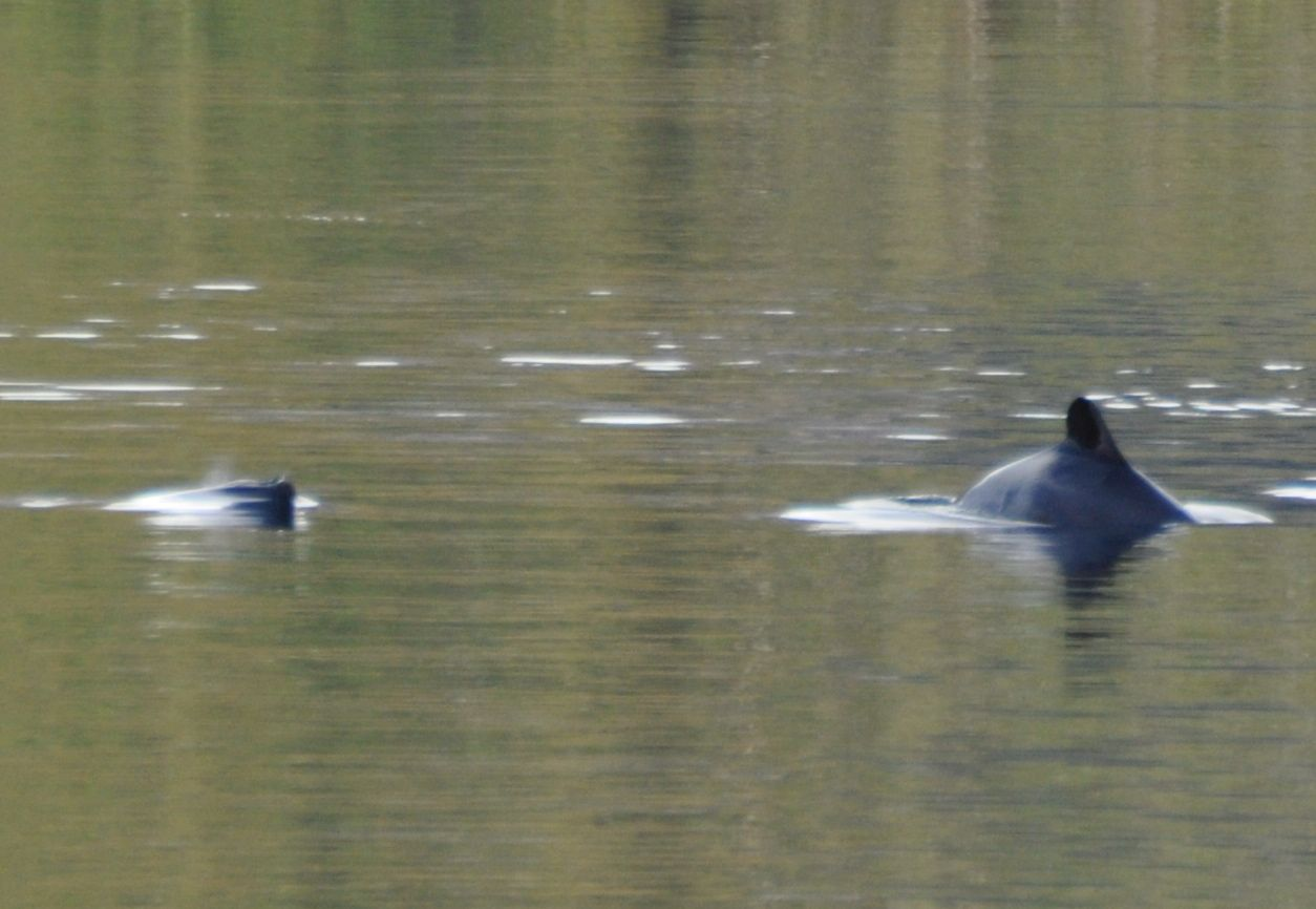 Chilean dolphin (Cephalorhynchus eutropia) at Estero Coloane, Isla Hoste, Chile.